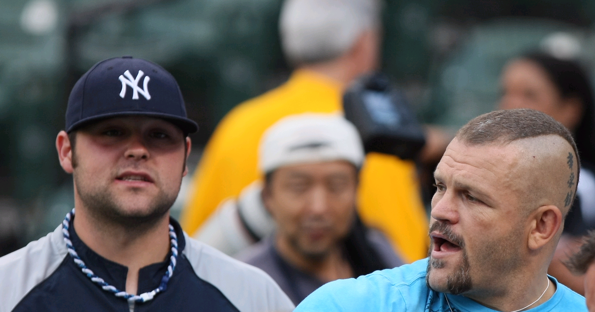 Joba Chamberlain (left) and Chuck Liddell